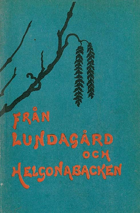 Private source, The calender "Från Lundagård och Helgonabacken" (Malmö, Sweden 1892). Author unknown.